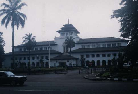 Gedung Sate, a landmark of the city of Bandung, Indonesia.